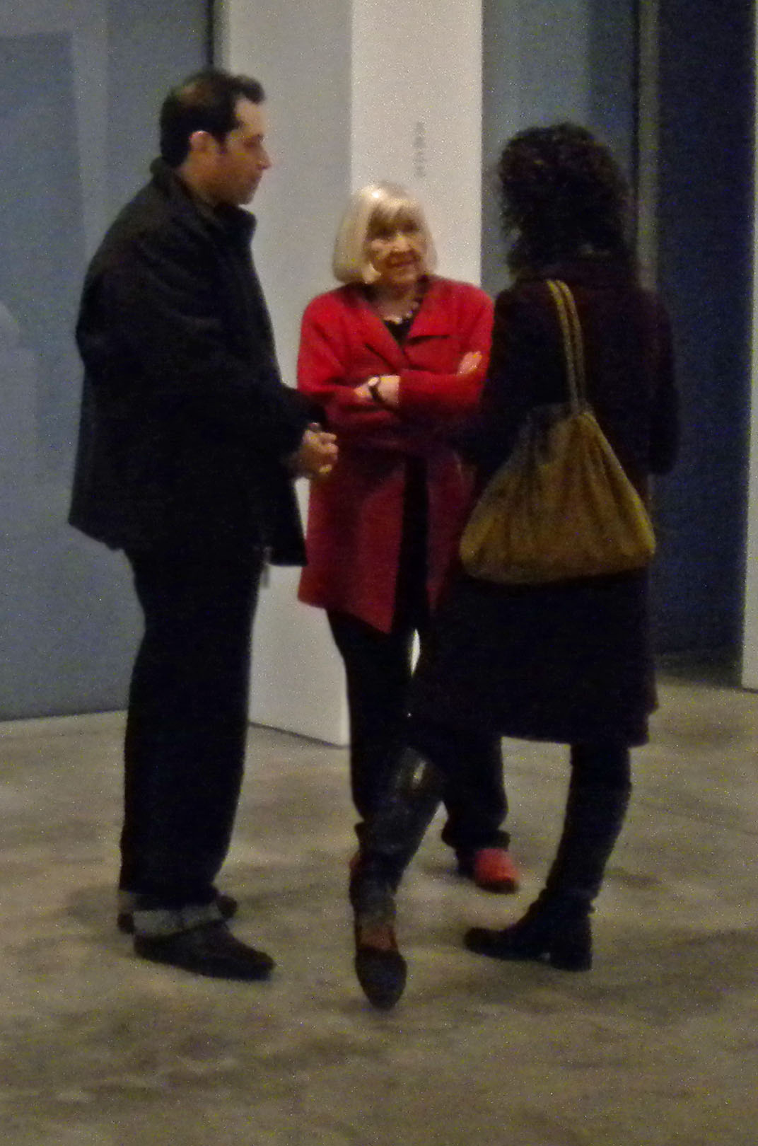 Hilla Becher (center, in red) discussing photographs by herself and her late husband Bernd Becher at the Sonnabend Gallery in Chelsea, NYC, October 2010.